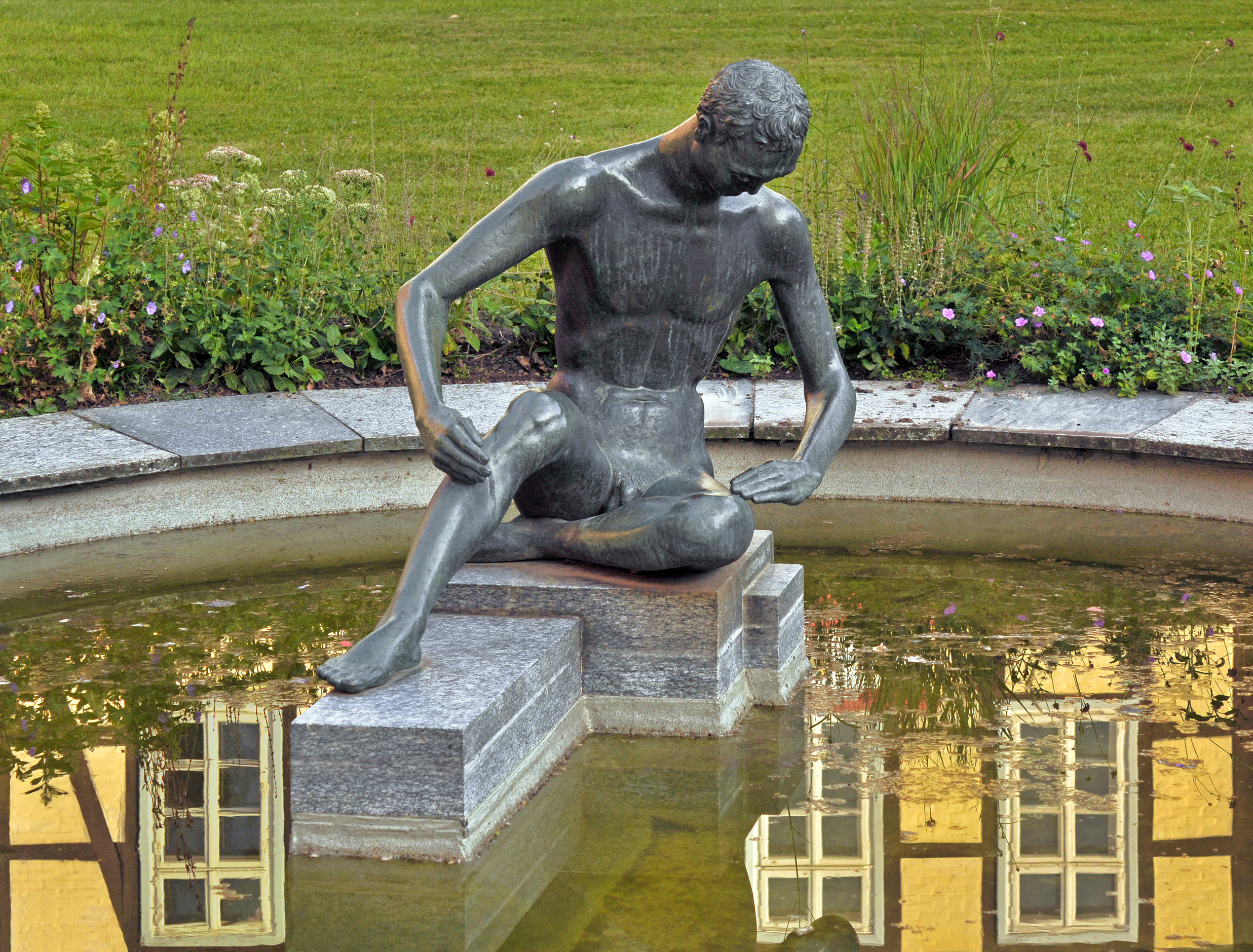 The youth-sculpture on the fountain made 1972 by Friedrich Adolf Sötebier near the street "Klosteramthof" in Wennigsen, Lower Saxony in Germany.